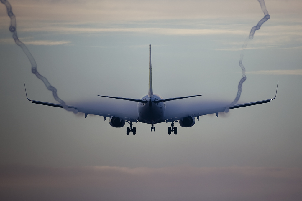 A Boeing 737 landing in humid air at Schiphol